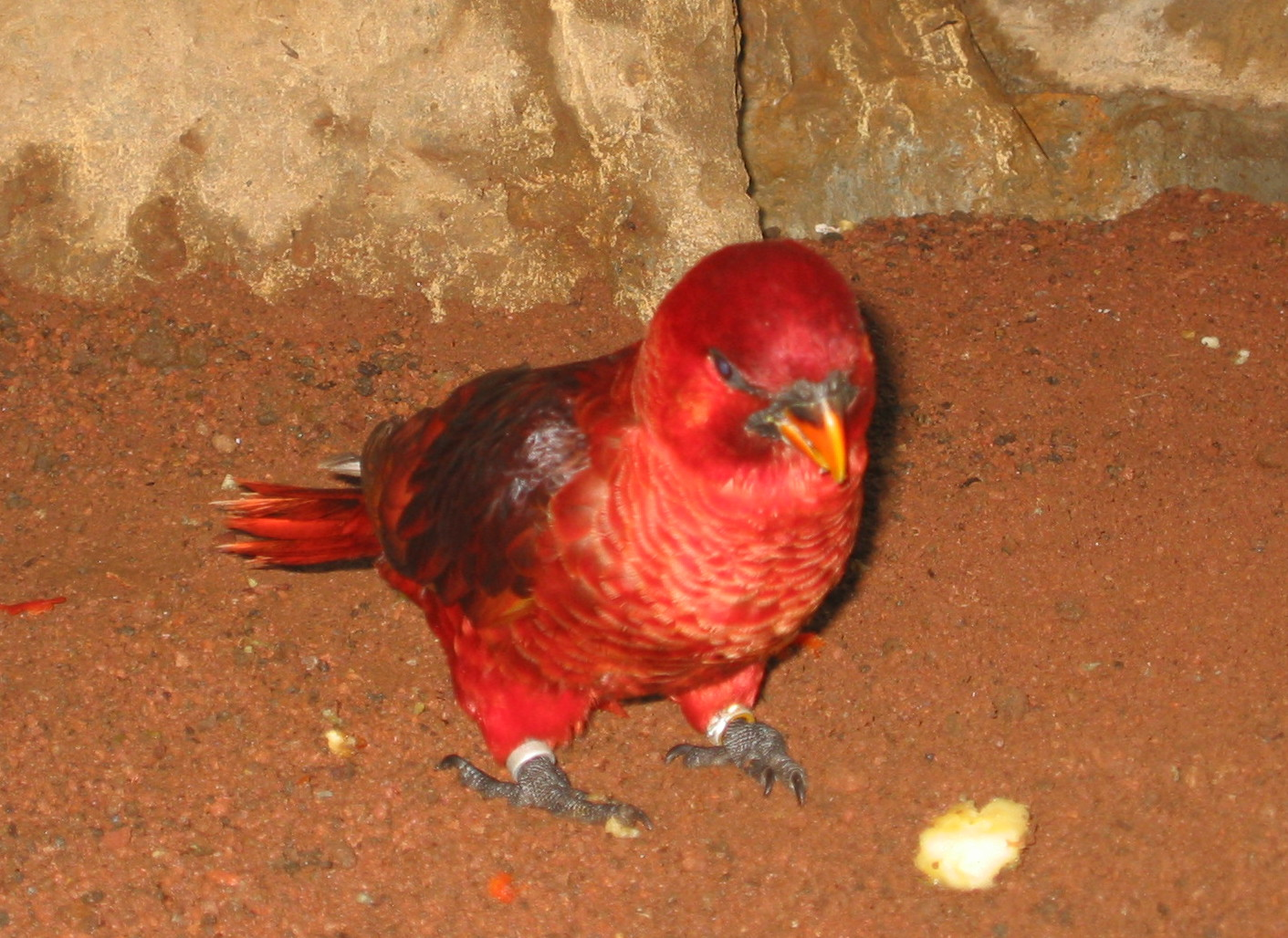 Cardinal Lory (Chalcopsitta cardinalis) at Loro Parque (Spain, Tenerife)